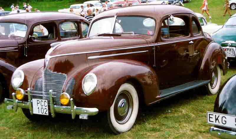 Hudson Pacemaker Series 91 Coupé 1939